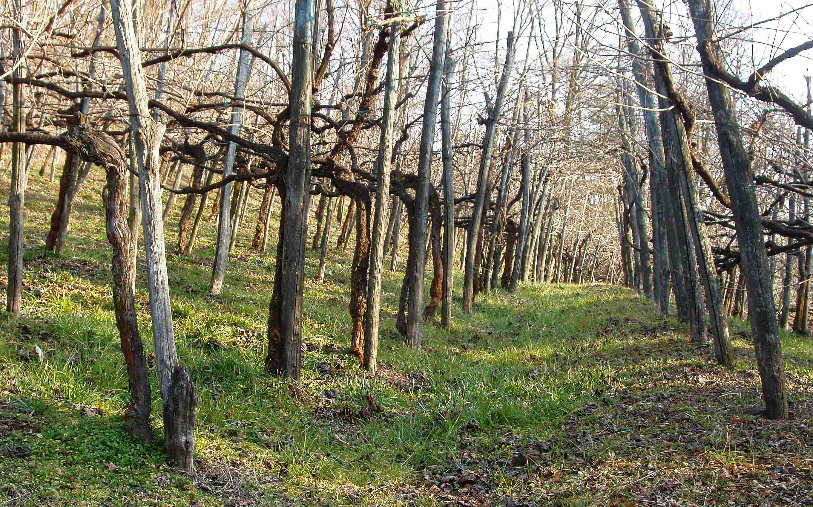 Lozzolo (VC, Italy): wineyard in winter